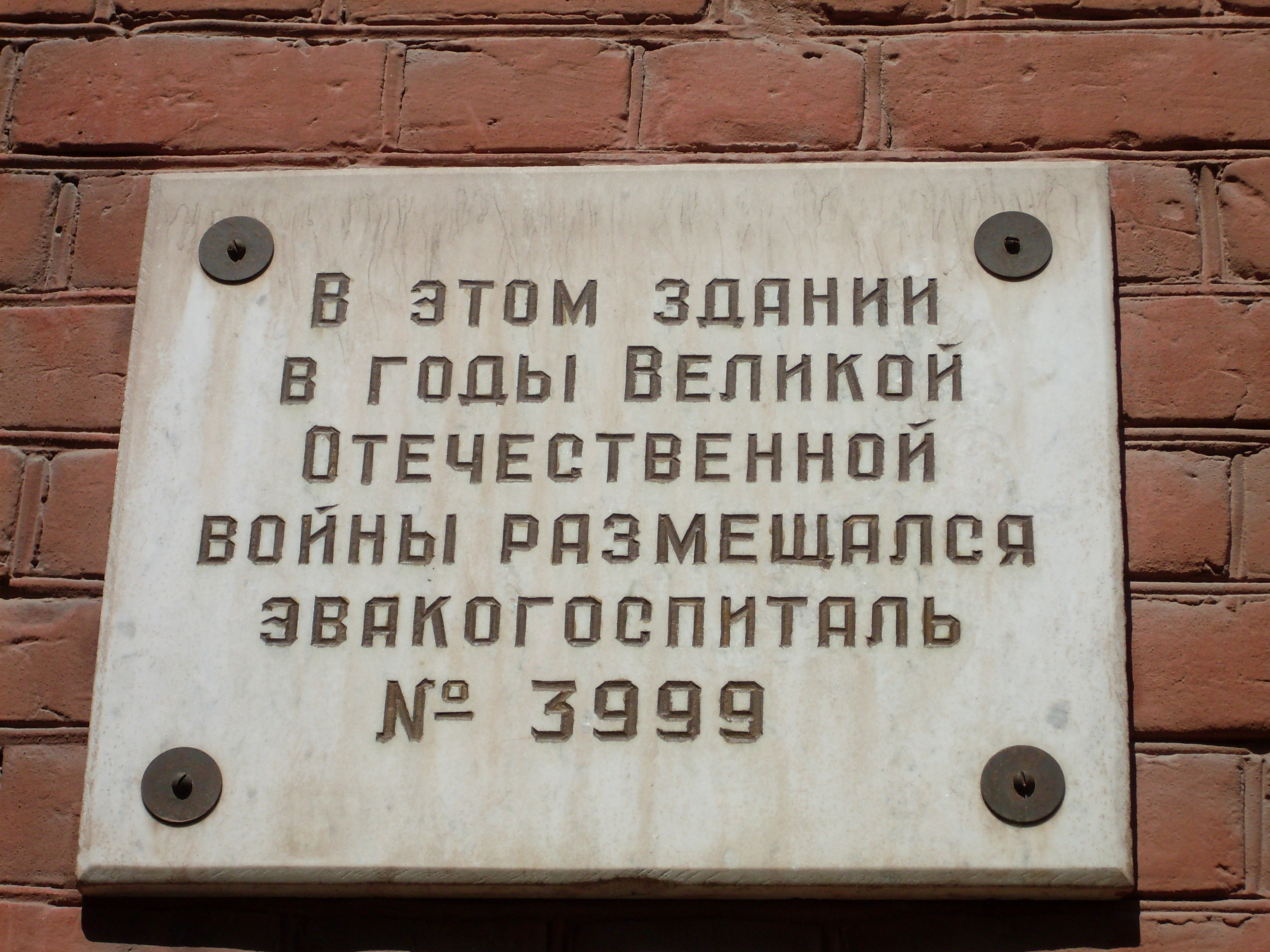 The memorable tablet (2 building SMUN) - Hospital